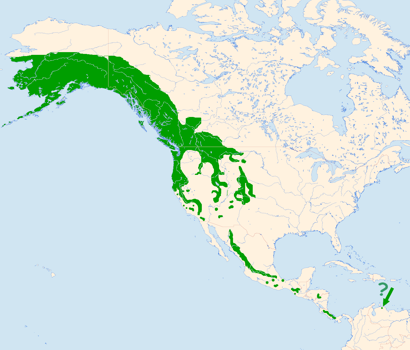 Cinclus mexicanus - Range Map